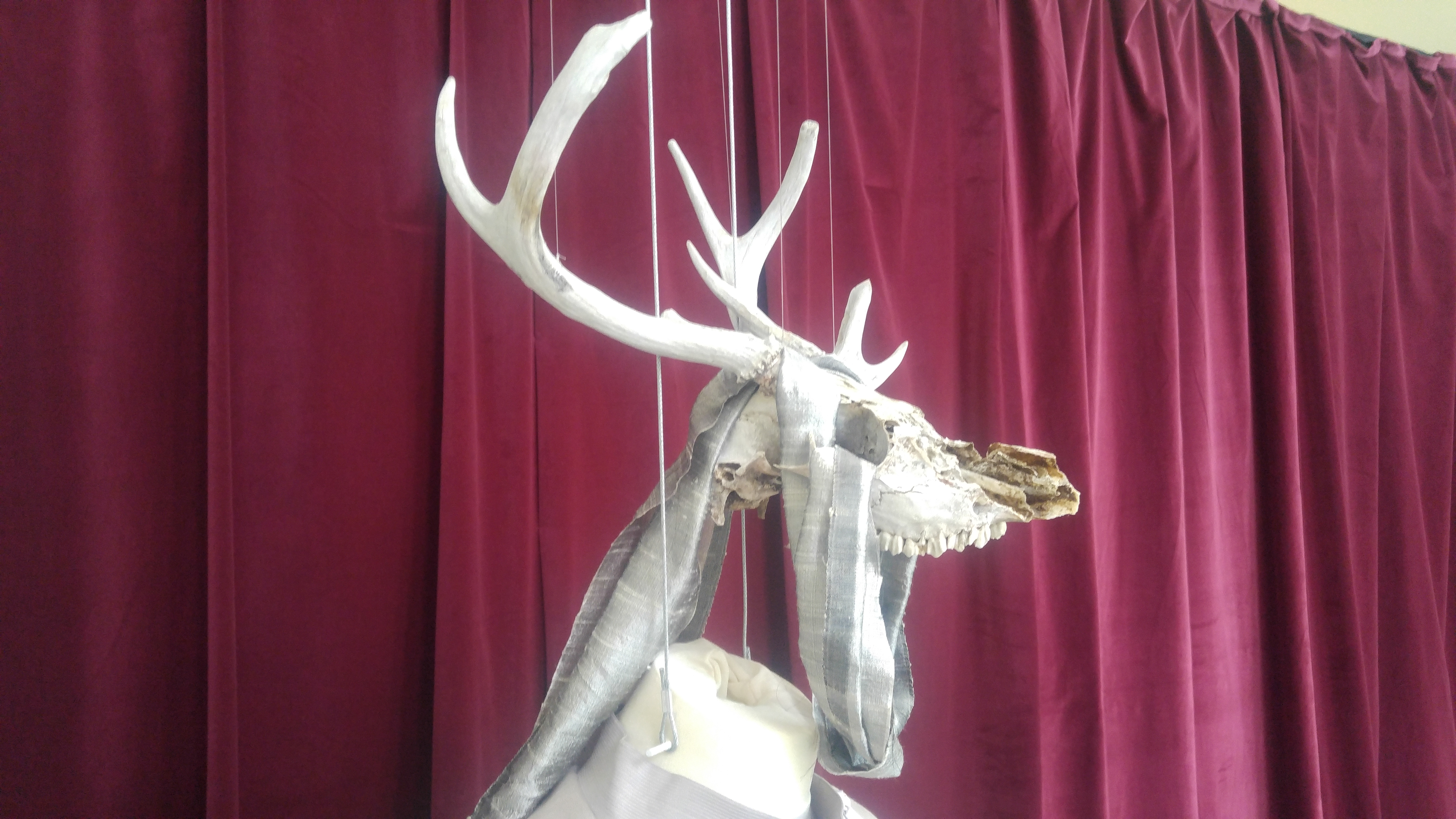 a costume from Hanna Tuulikki's installation Deer Dancer at Edinburgh Printworks